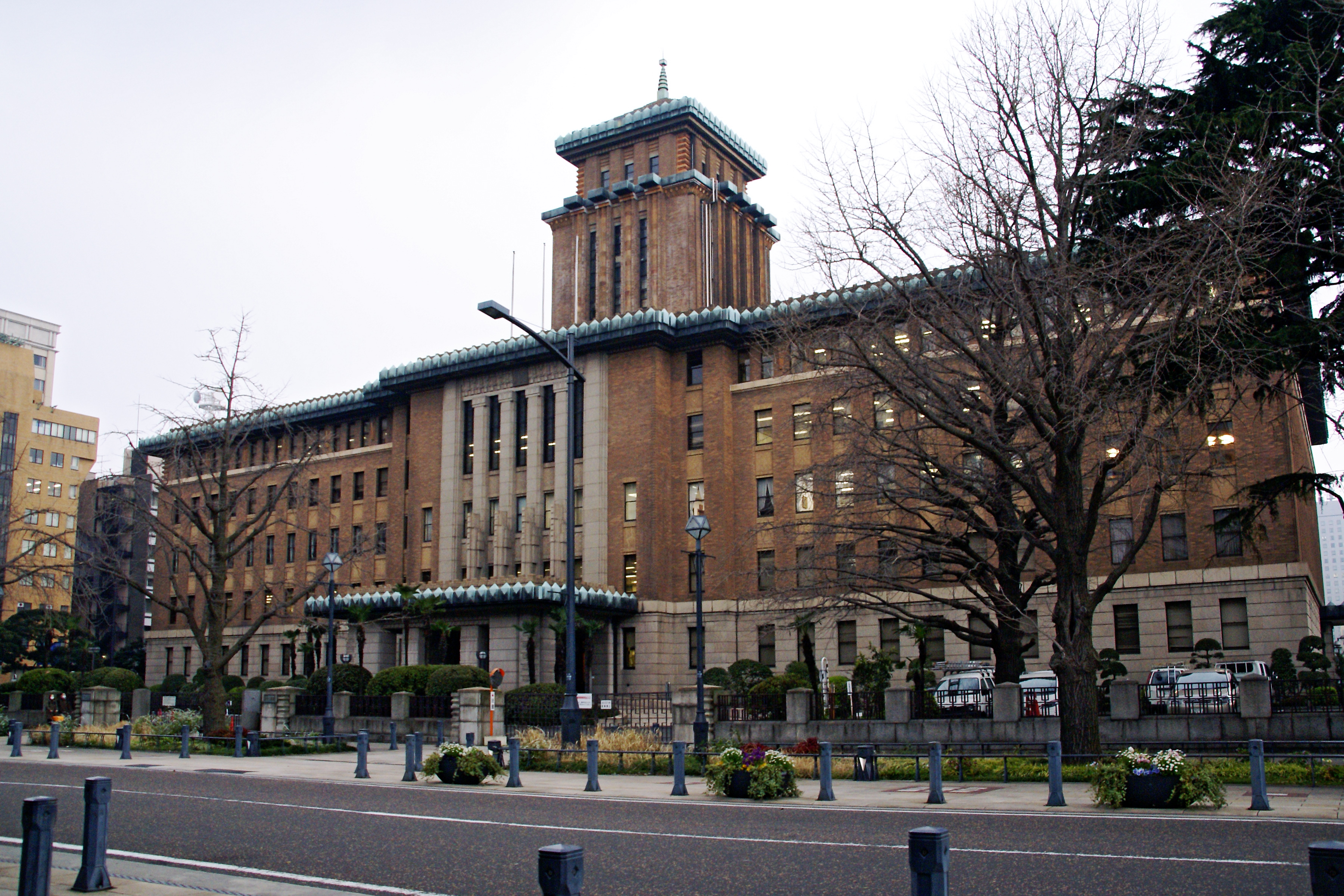 Kanagawa Prefectural office in Yokohama, Kanagawa prefecture, Japan